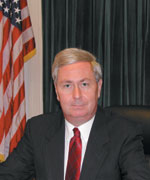 James A. Barcia (Michigan Representative)